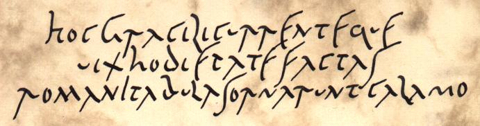 The text is written by me in an attempt to mimic the Old Roman Cursive, and reads: Hoc gracili currenteque vix hodie patefactas Romani tabulas ornarunt calamo. This is a Latin elegiac couplet composed by myself, which might be translated as: "With this slender and running pen the Romans decorated writing tablets, which today scarcely have been brought to light." The chief merit of this verse is that all letters of the Latin alphabet are used (except K, Y and Z).